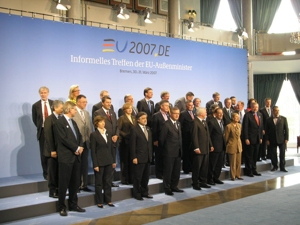 Meeting of the European Union foreign ministers (Gymnich) at the Park Hotel in Bremen, March 2007